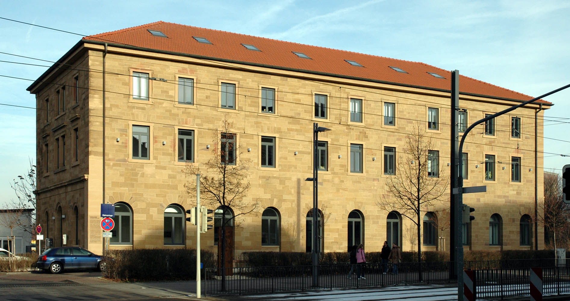 Heilbronn's first train station building.